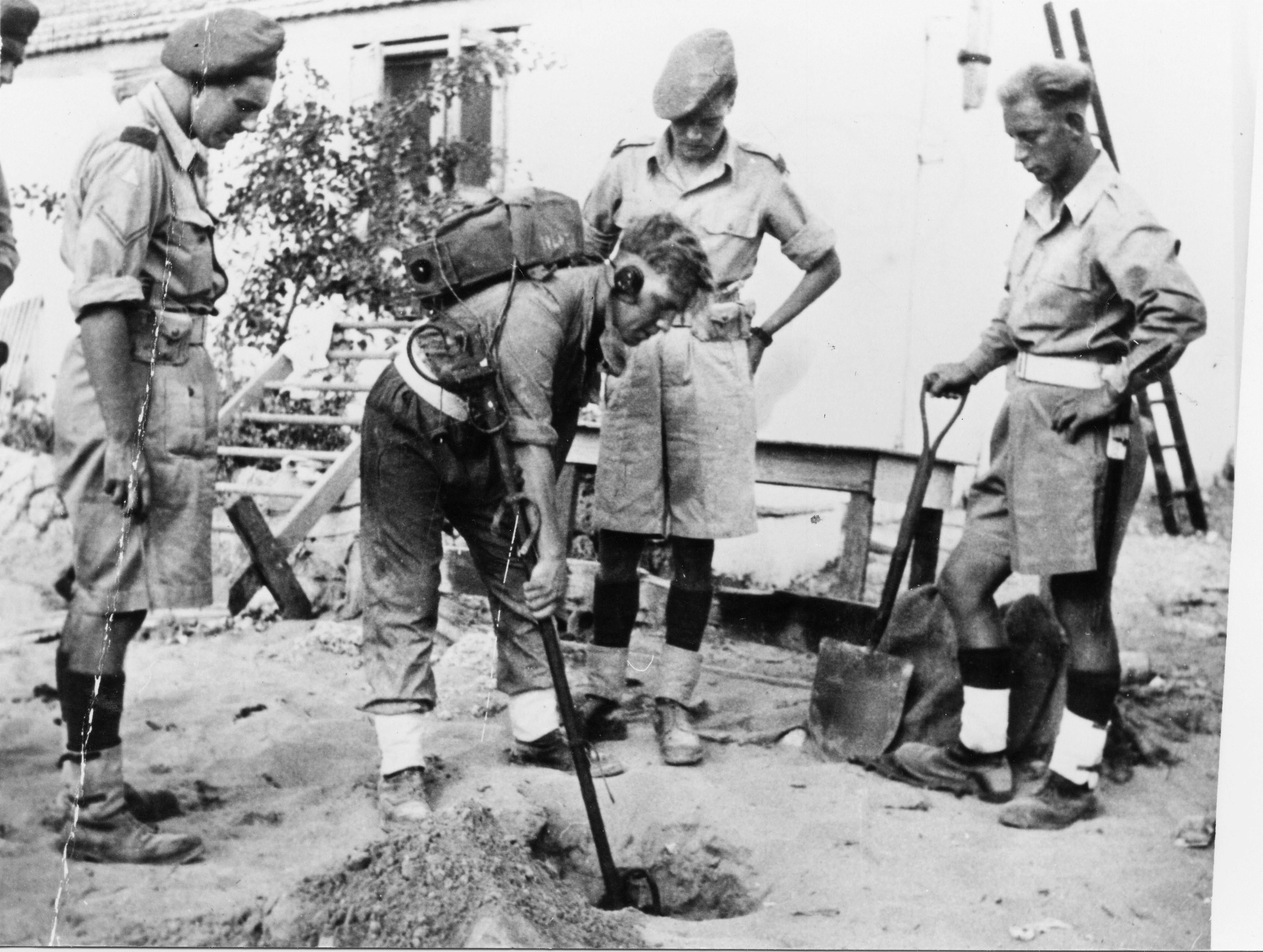 The Palmach, Israel Defense Forces